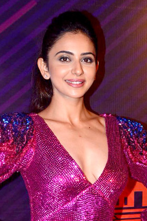 Rakul Preet Singh snapped at Femina Miss India 2018 at Carnival Cinemas.